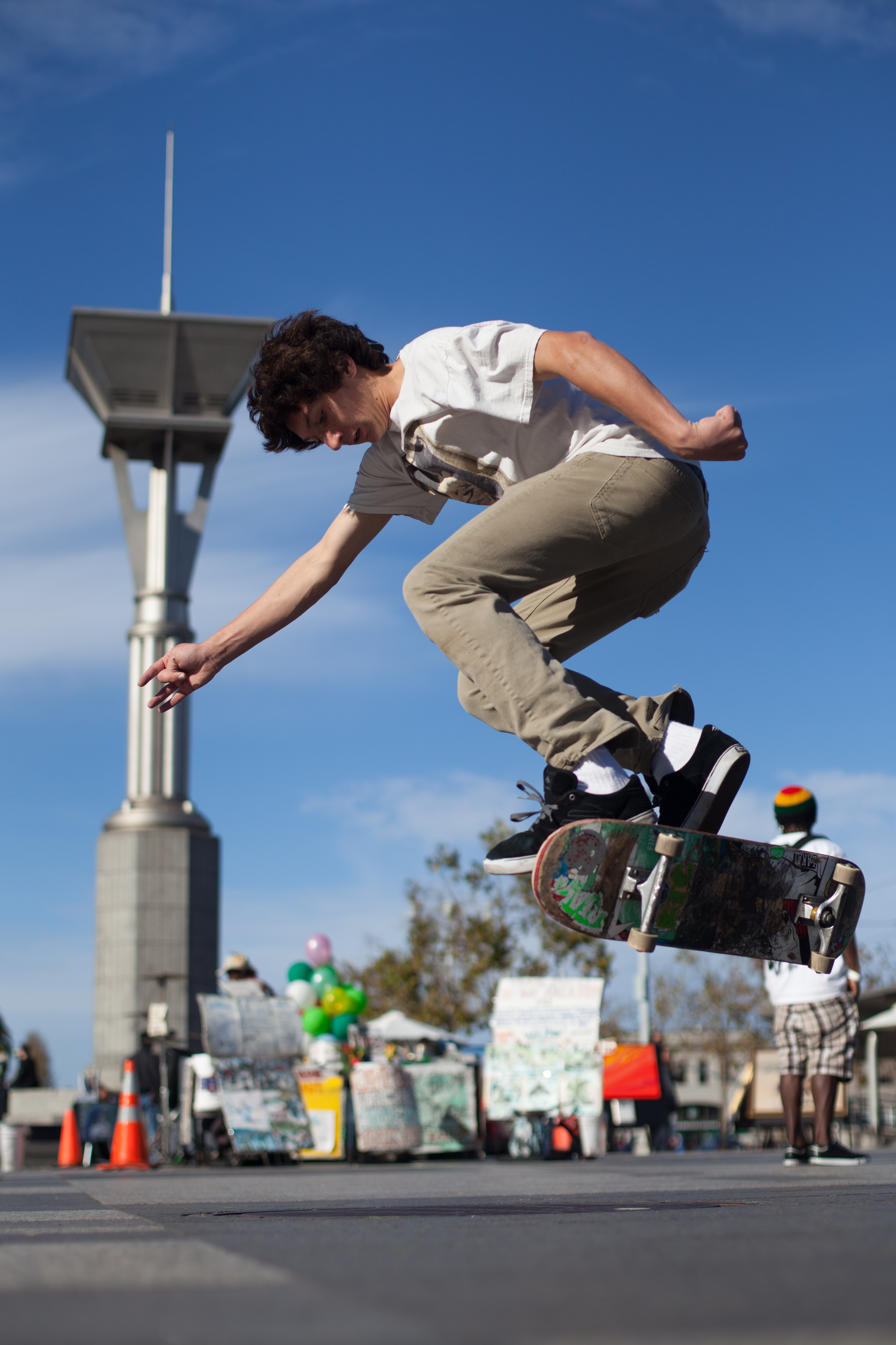 A skateboarder performs a kickflip over a manhole cover in Justin Herman Plaza on the Embarcadero in San Francisco, California.